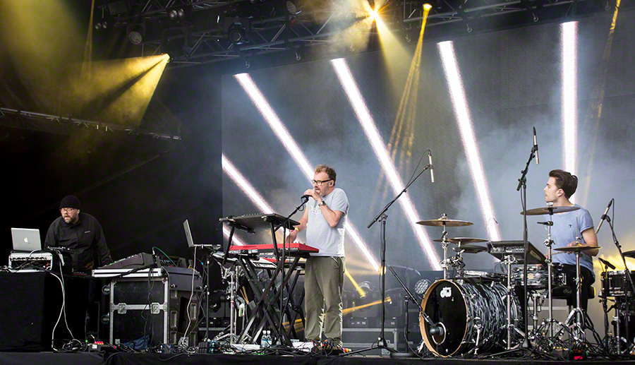 Leftfield performs at Quart Festival in Kristiansand on 29. June 2016. Lineup:Neil Barnes (keyboard)Adam Wren Nick Rice (drums)